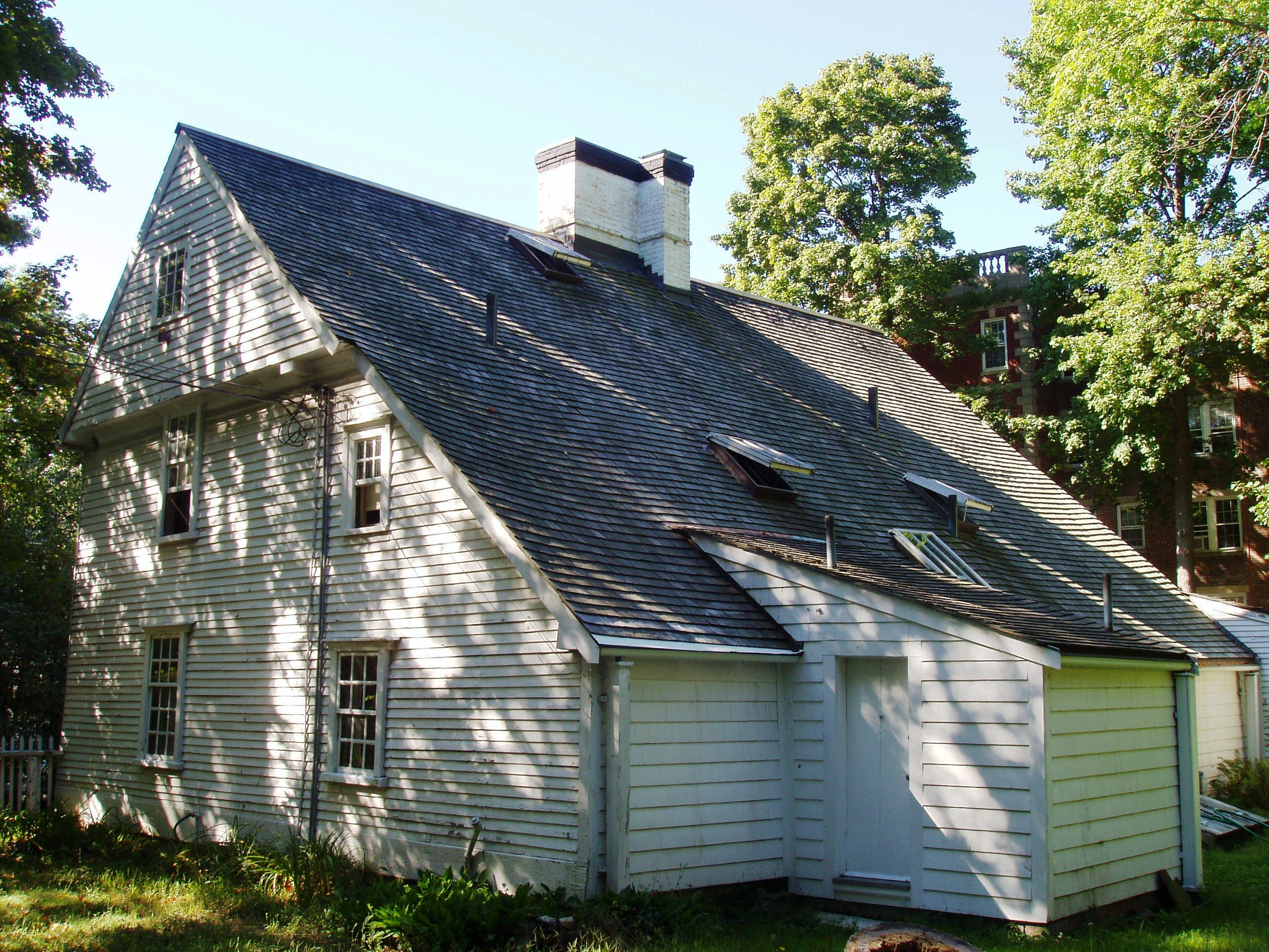 Cooper-Frost-Austin House, Cambridge, Massachusetts - corner view from the rear. Photograph taken by me, September 2005.